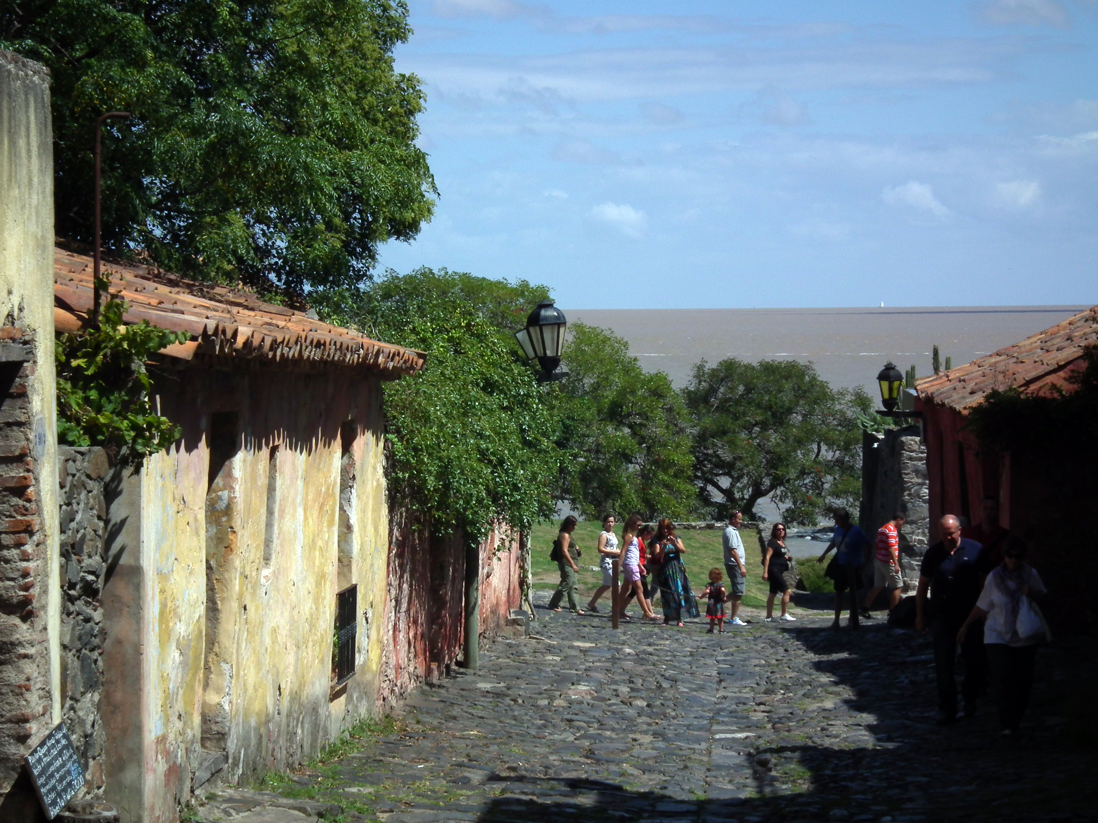 View of the Calle de los Suspiros (Street of Sighs) in Colonia del Sacramento, Uruguay